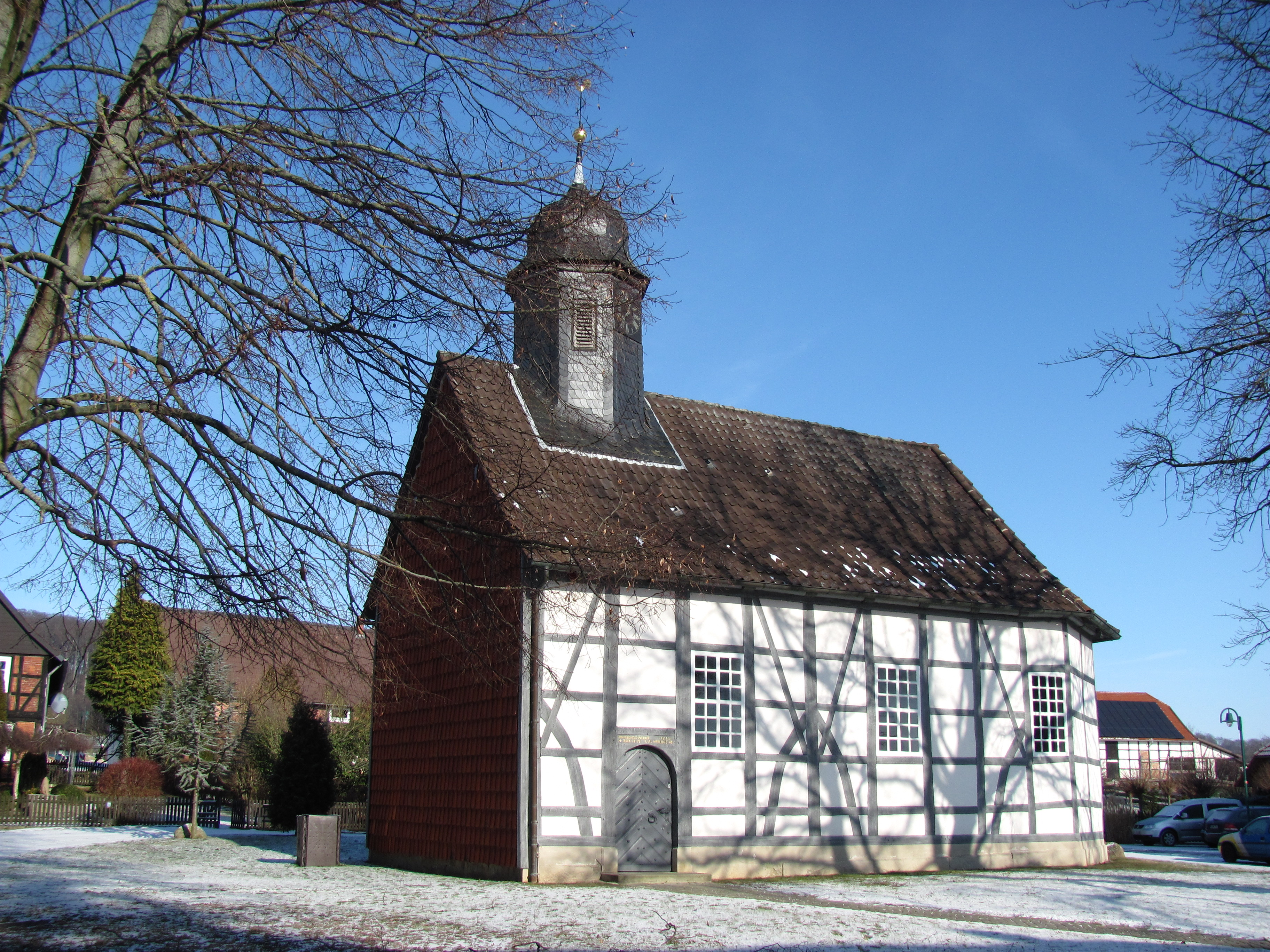 Protestant Church, Holle-Luttrum near Hildesheim, Lower Saxony, Germany